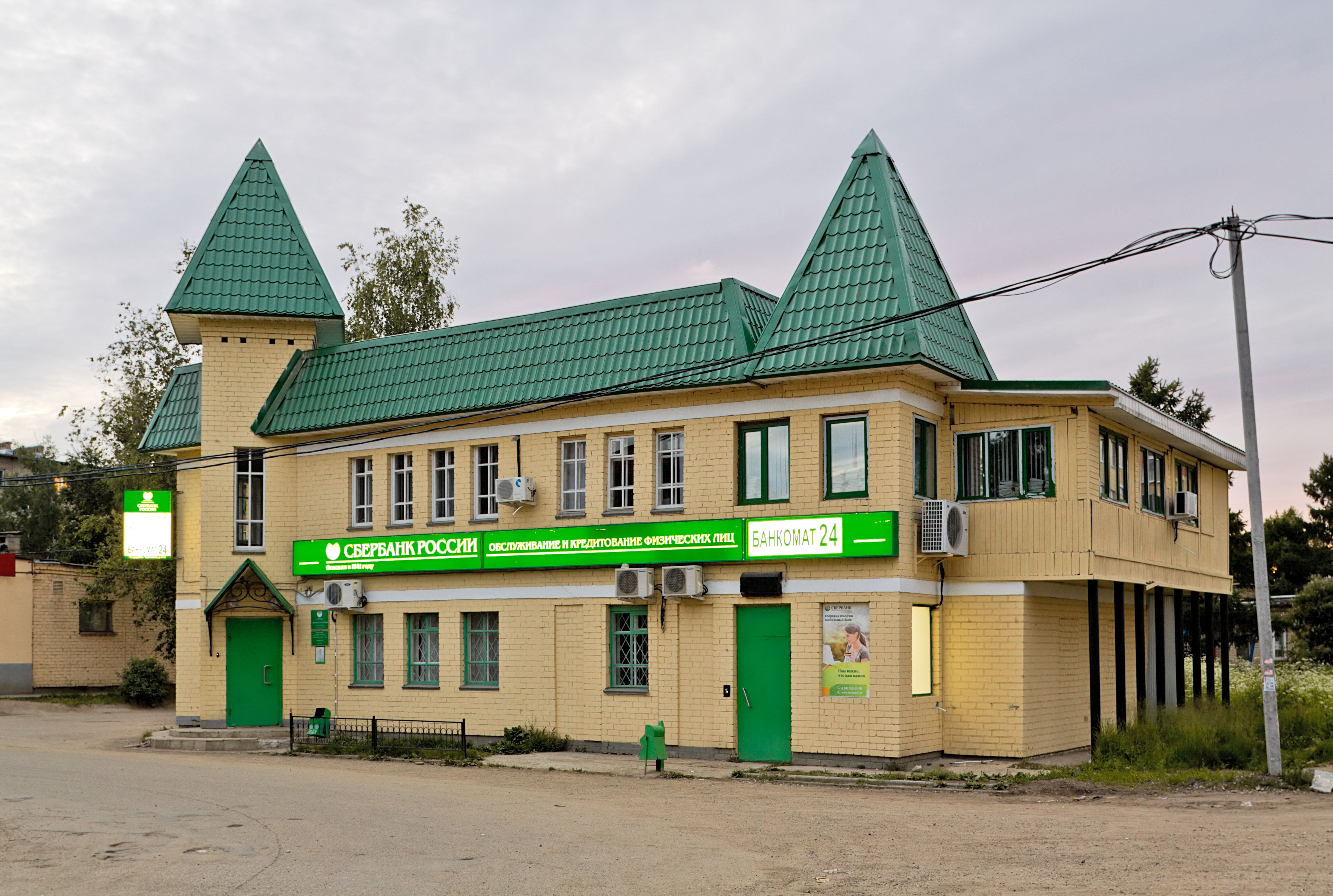 Pereslavl, Chkalovsky district, house 47-a. Ex-shop «Lyudmila». Branch of «Sberbank Rossii», auxiliary office №7443/051.